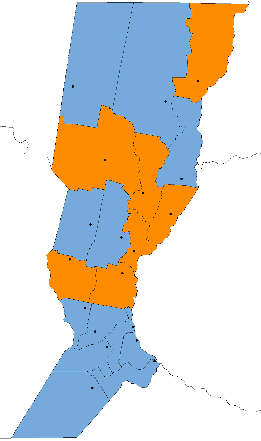 Elections results by elections to provincial deputies of the province of Santa Fe, Argentina Frente Progresista, Cívico y Social Frente para la Victoria